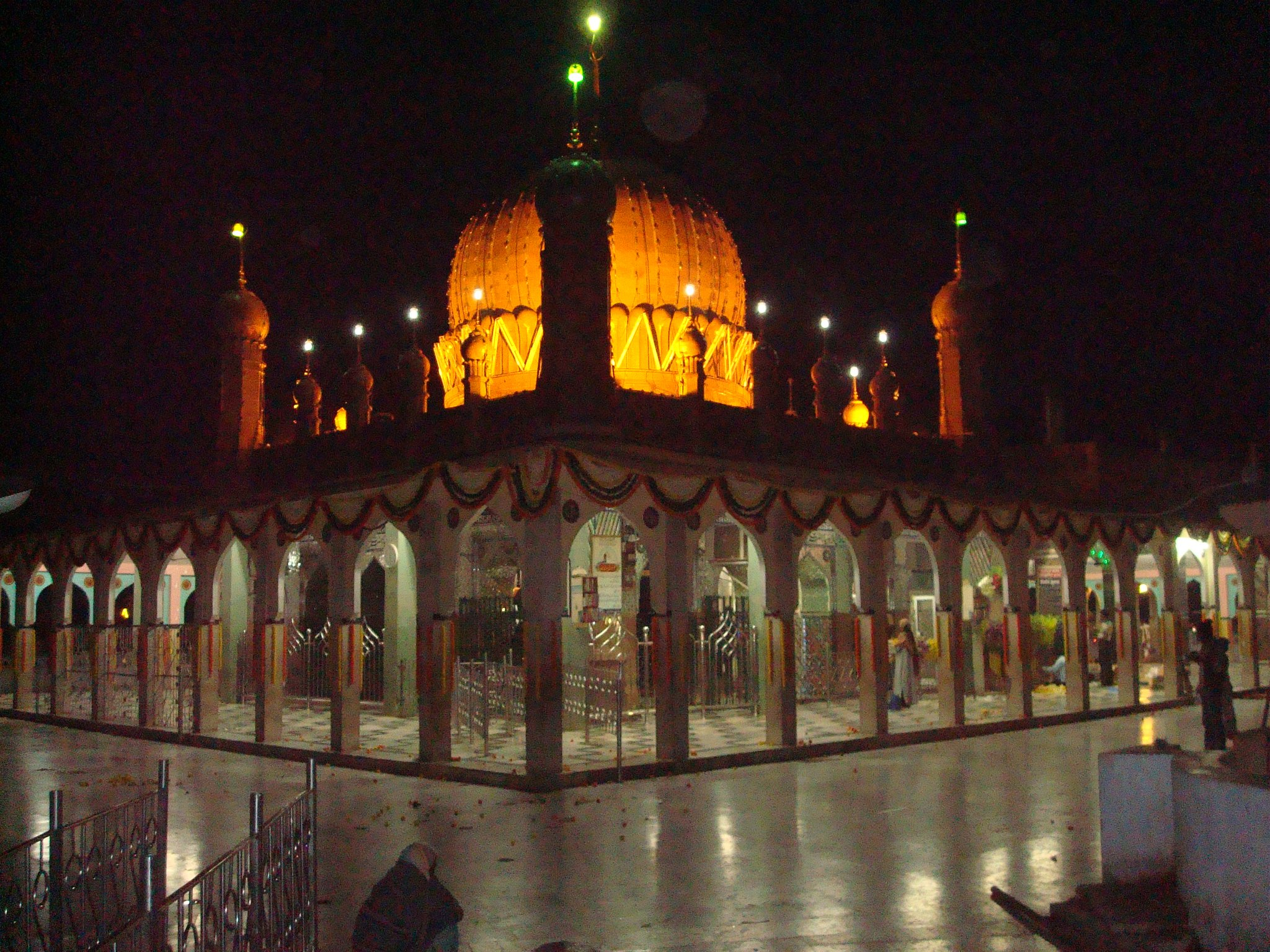 Tajdin